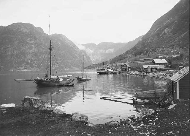 Sunndal, Maurangsfjord, Kvinnherad, Hordaland, Norway